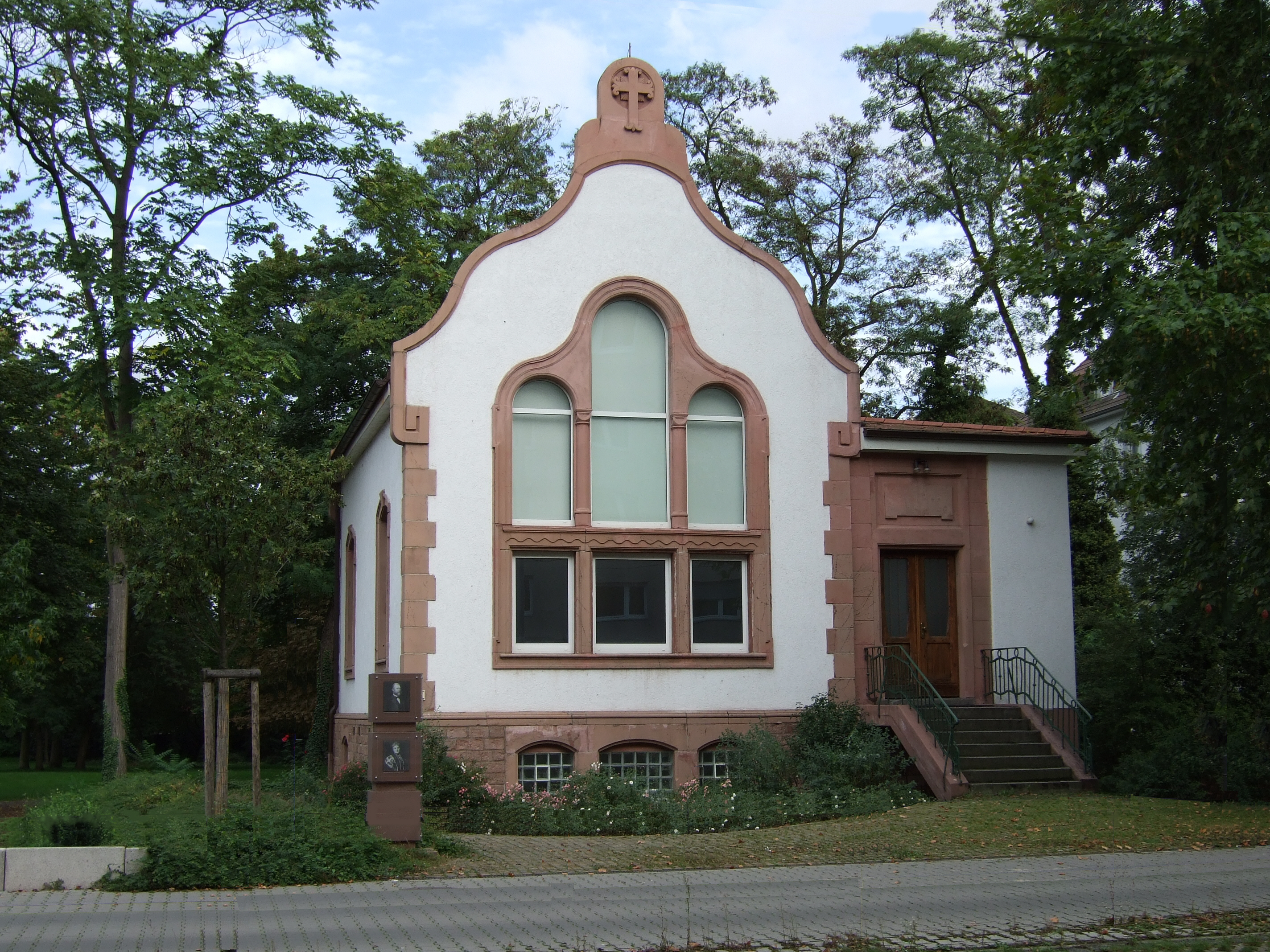 Lanz chapel, Mannheim, Germany